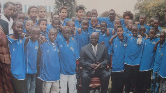 The first Ligi Ndogo team to the Umbro Cup at State house Nairobi,2005